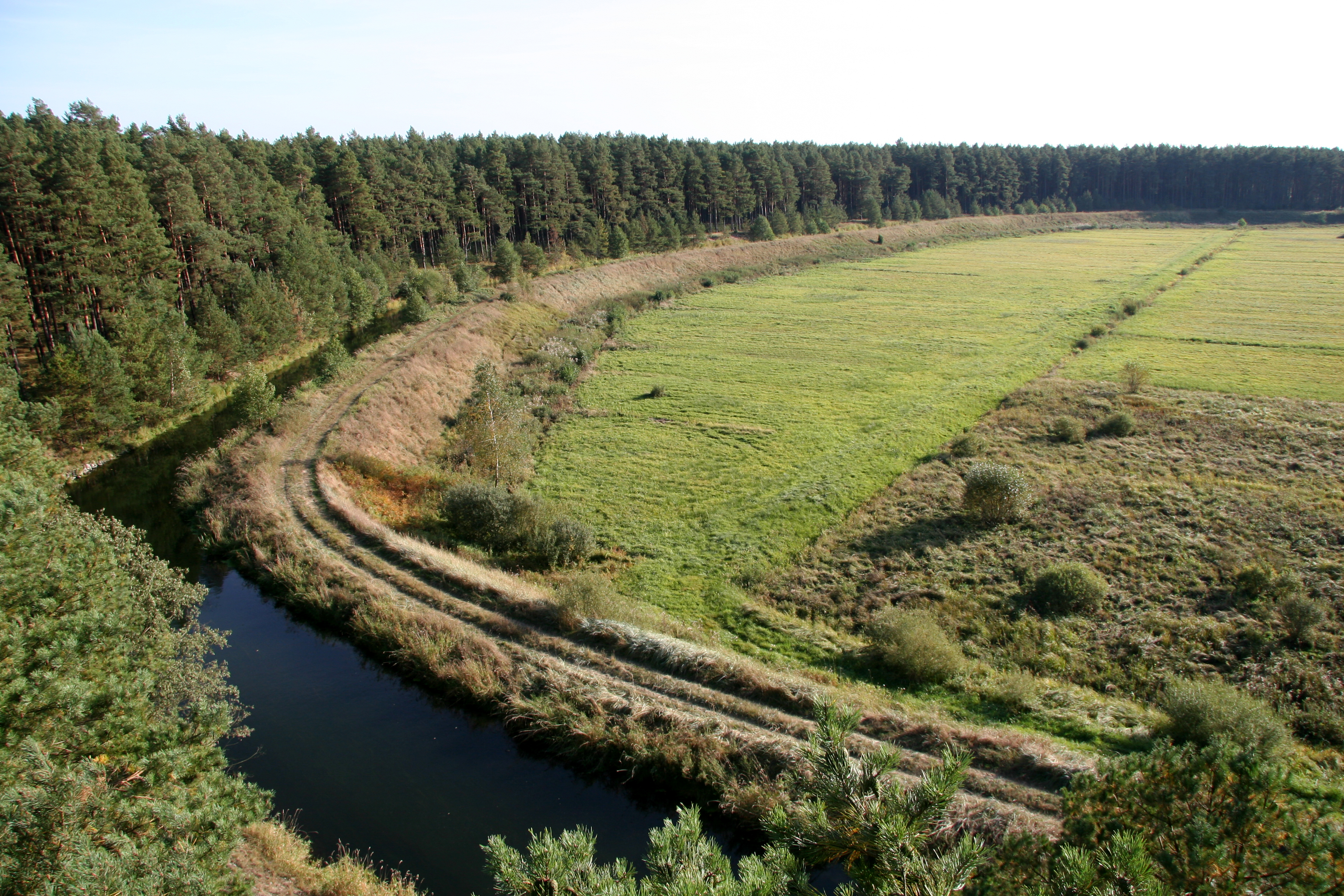 Great Channel of Brda river